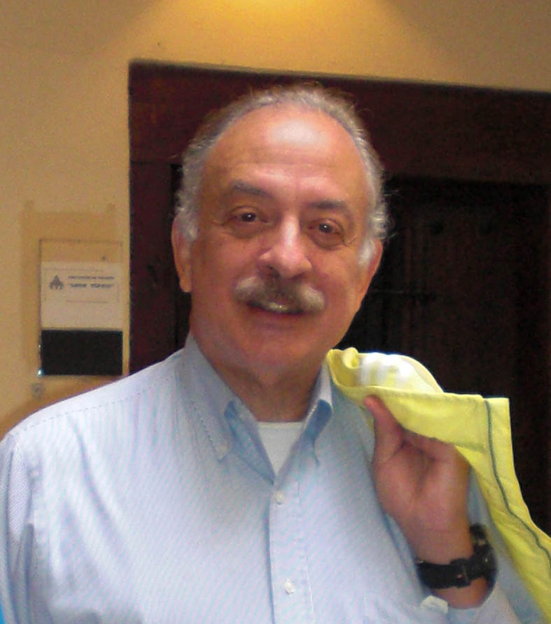 Jaime Einstein, Cuban writer.